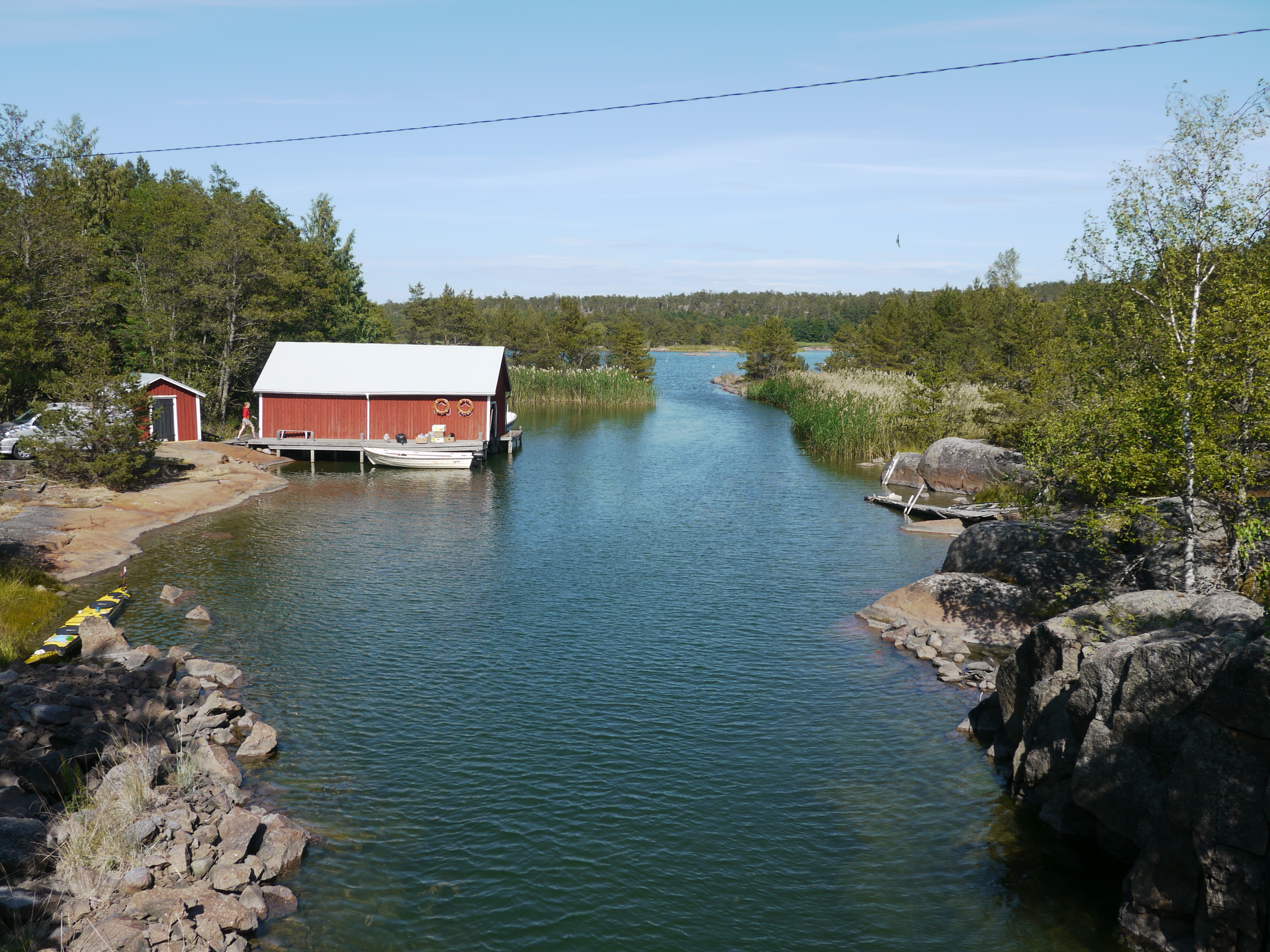 The water between Eastern and Western Simskäla, Vårdö, Åland